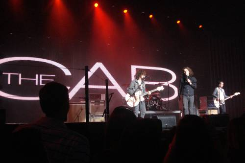 American band The Cab playing at Utah's E Center on 10/16/08.